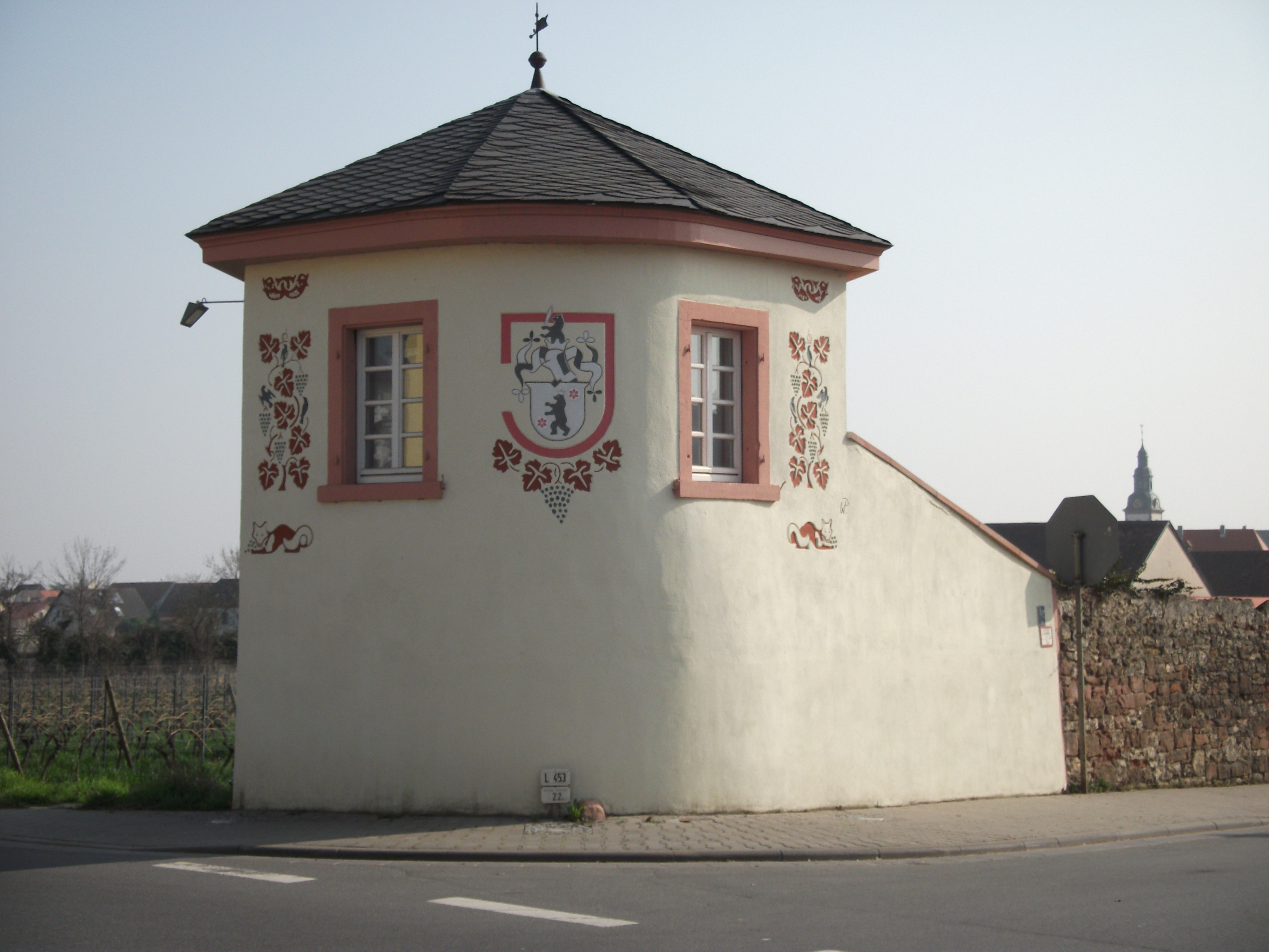 Pavilion, painted by Walter Perron (Künstler), on the wine site Dirmsteiner Jesuitenhofgarten